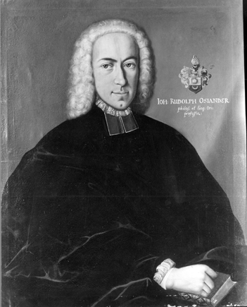 The german theologian Johann Rudolph Osiander (1689-1725)